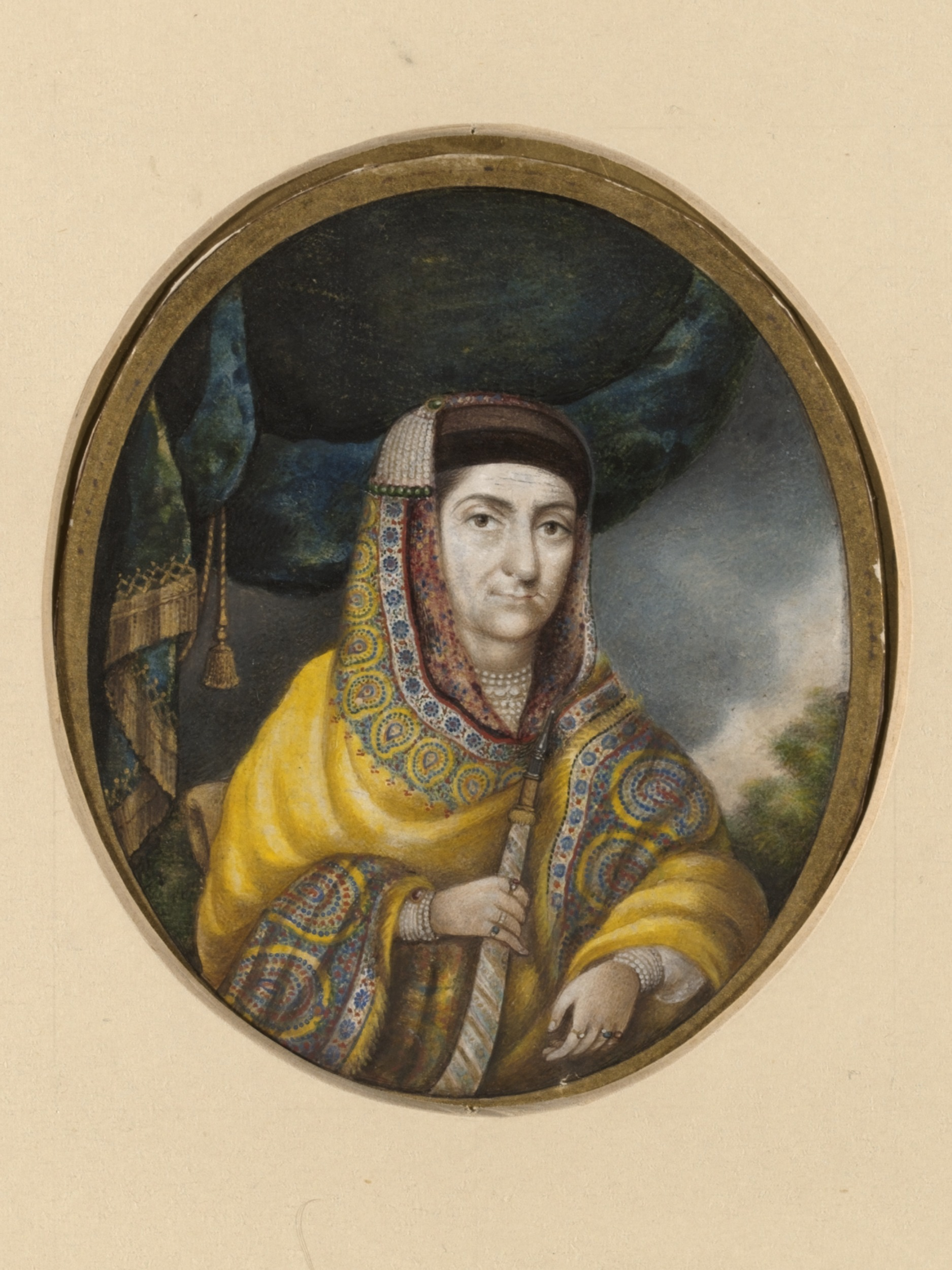 This Company painting is by Jiwan Das of Delhi and is a portrait of Begam Samru, a remarkable Kashmiri woman who started out as a dancing-girl. She originally married the adventurer Walter Reinhardt, who sailed to India in 1745, jumped ship and enlisted with the French. He was later recruited by the Mughal Governor in Bengal. He led an army which defeated the Honourable East India Company’s army and was ultimately given the fiefdom of Sardhana. Following his death, Begam Samru inherited his army of six well-trained and disciplined infantry battalions, and she even led her troops into battle in person. She became extremely rich, and in her old age she converted to Christianity and built a fine church at Sardhana. This portrait dates from about 1830, when she was nearly 80. 'Company paintings' were produced by Indian artists for Europeans living and working in the Indian subcontinent, especially British employees of the East India Company. They represent a fusion of traditional Indian artistic styles with conventions and technical features borrowed from western art. Some Company paintings were specially commissioned, while others were virtually mass-produced and could be purchased in bazaars.